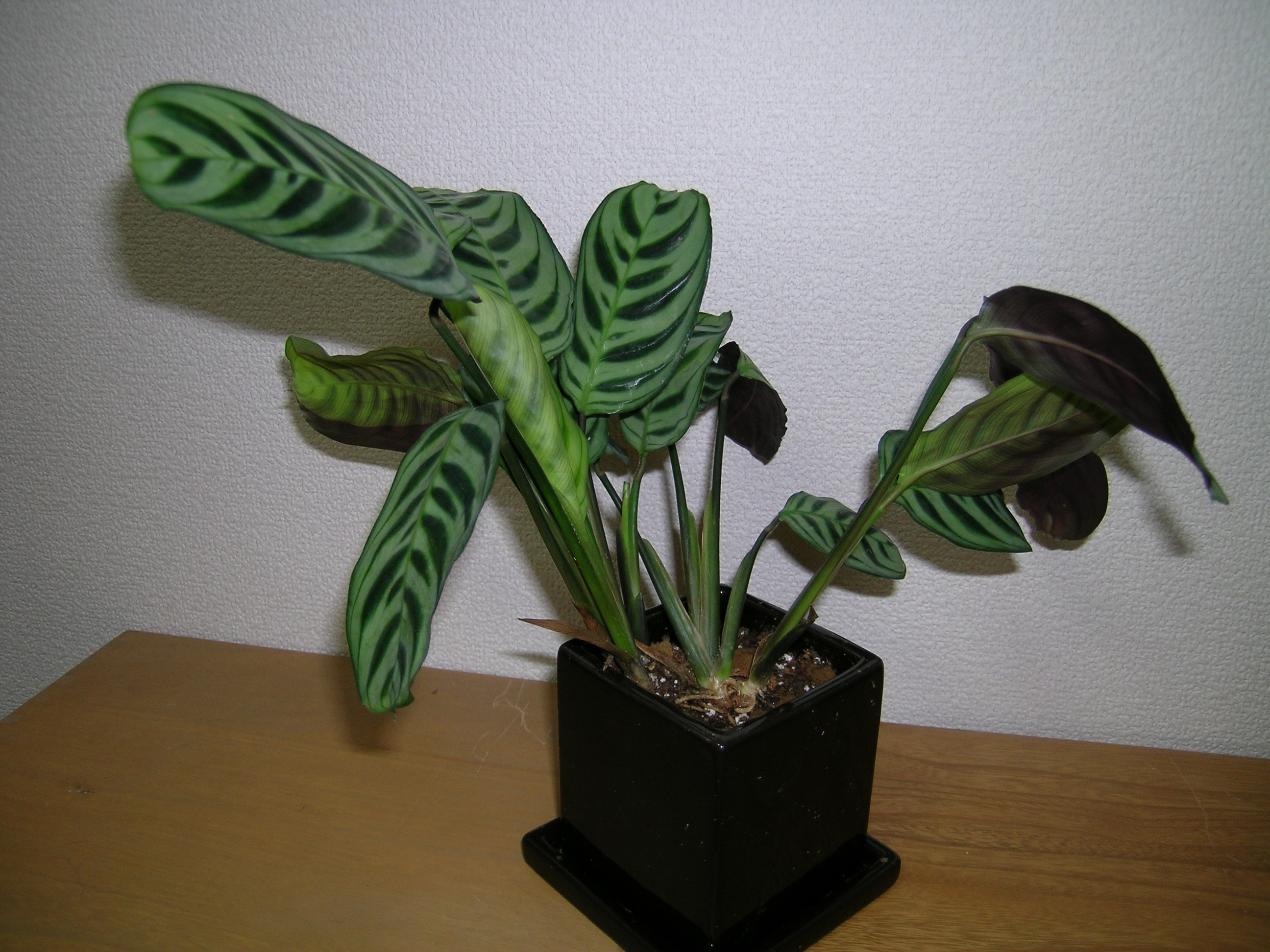 Ctenanthe is garden plant. It is grow well in indoors. A plant with beautiful leaves.